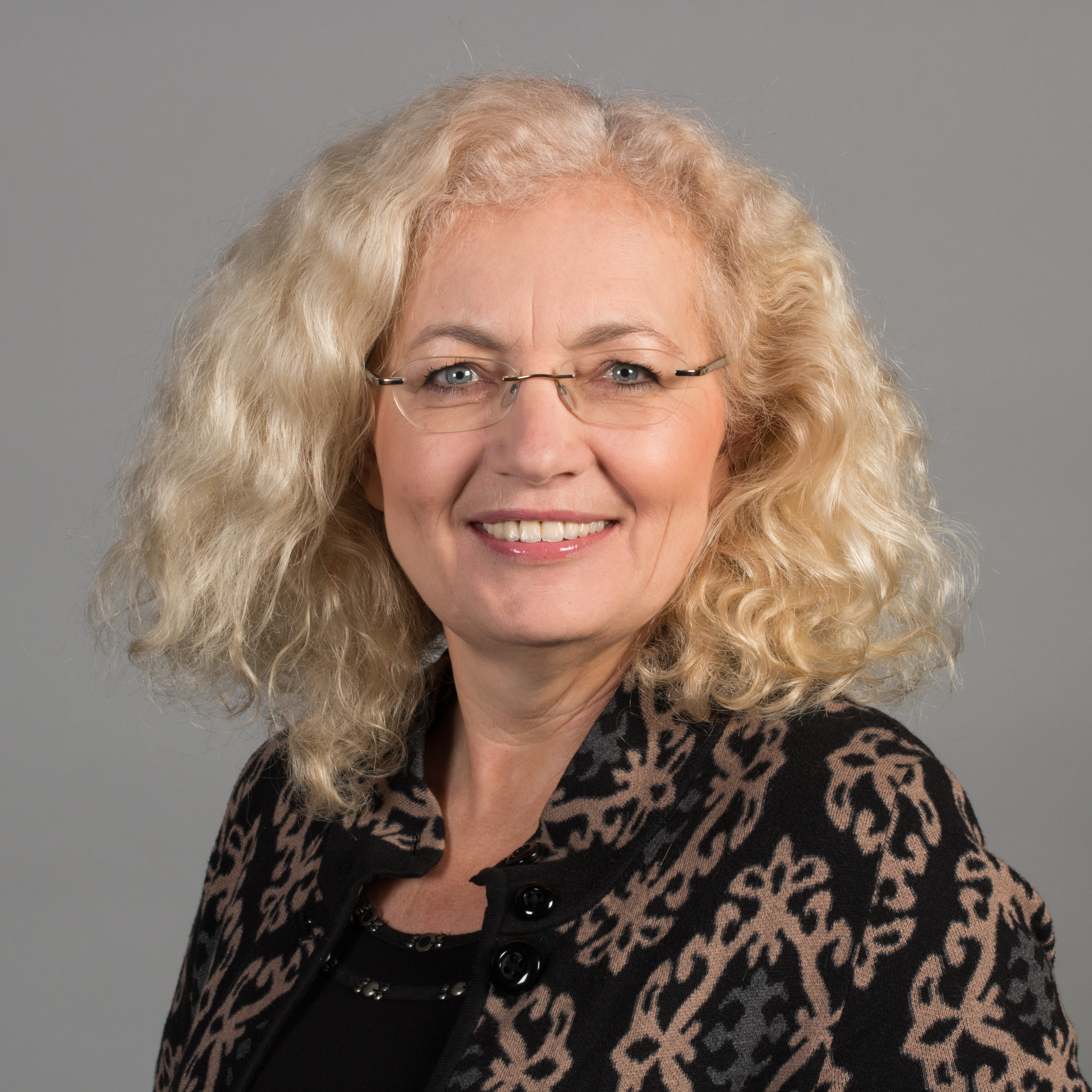 Karin Kadenbach, SPÖ, Member of the European Parliament